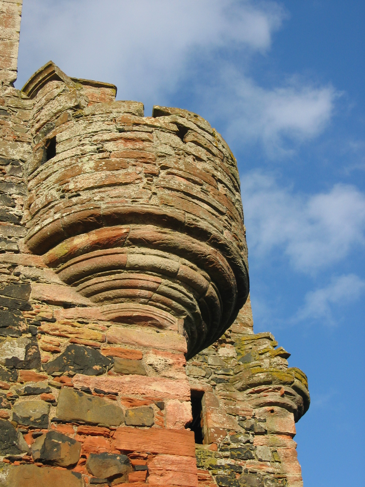 Example of a Bartizan, Greenknowe Tower, Scottish Borders.